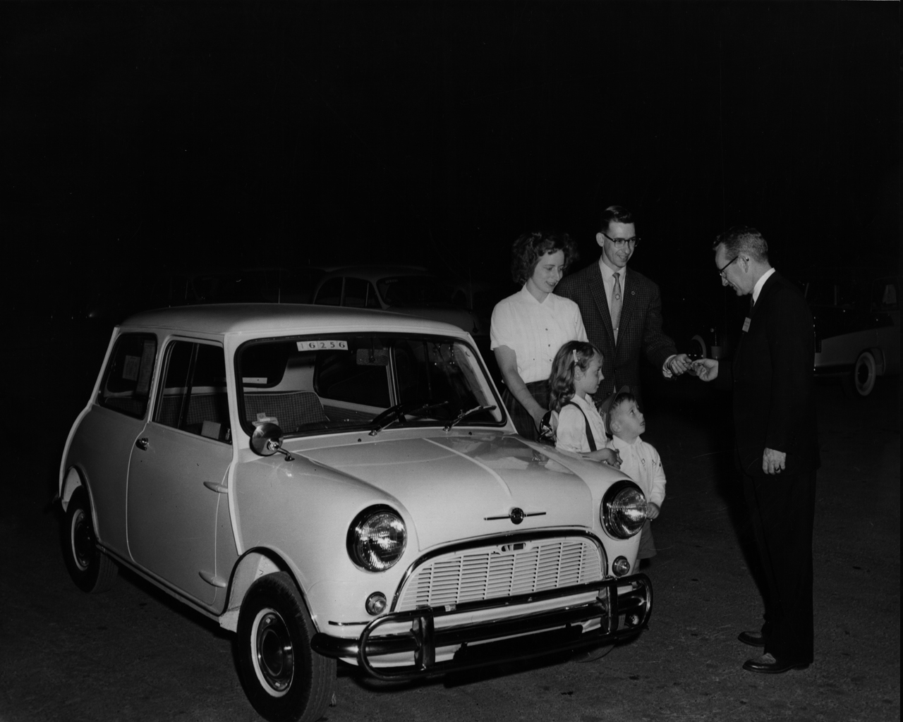 This is the very first Morris Mini -Minor in Arlington Texas, 1959 Donated to Wikipedia by Edith Englert, (at upper left in photo) no restrictions on use.